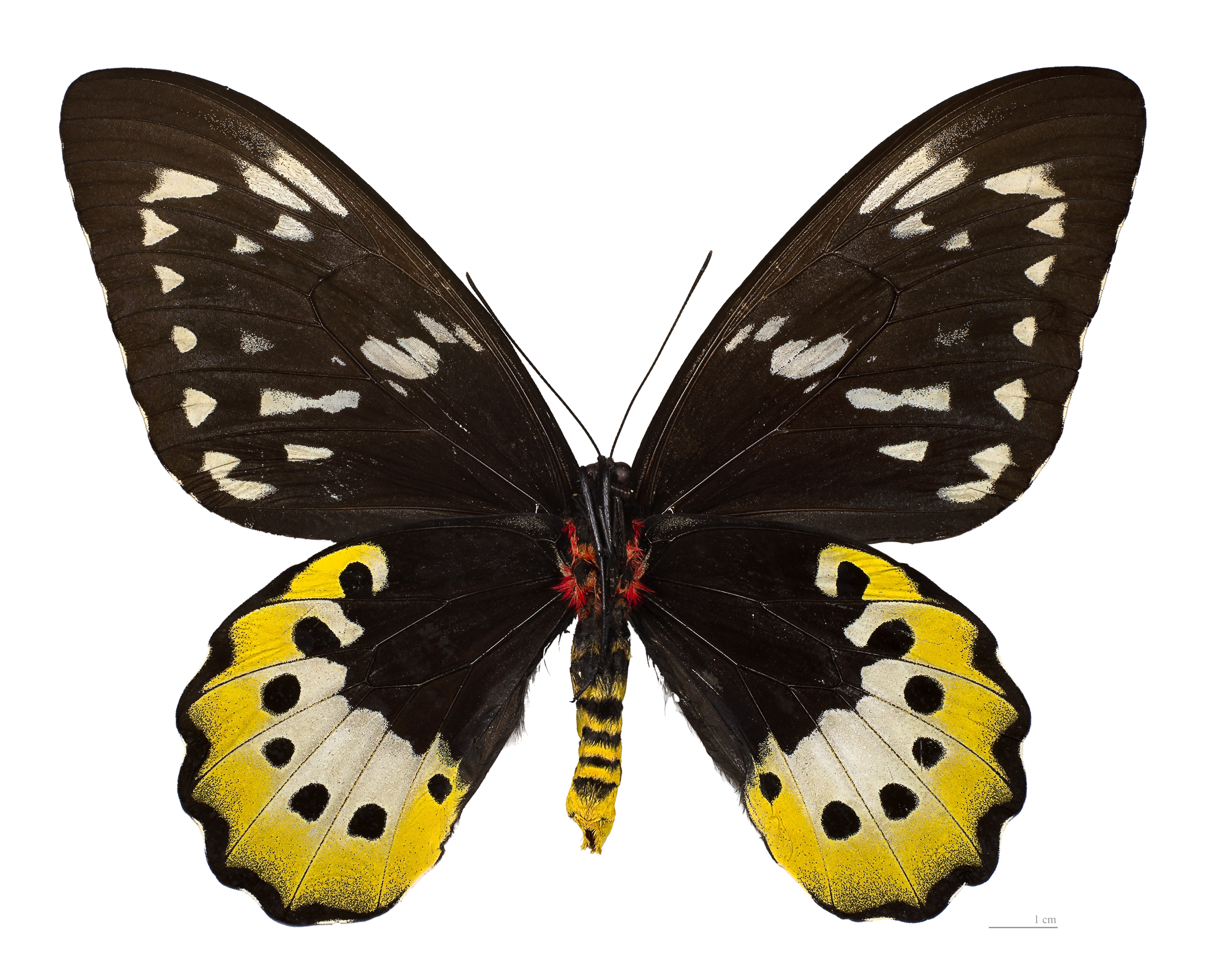 Ornithoptera goliath samson ♀ - △ Ventral side Arfak Mountains, Province of West Papua, New Guinea, Indonesia.